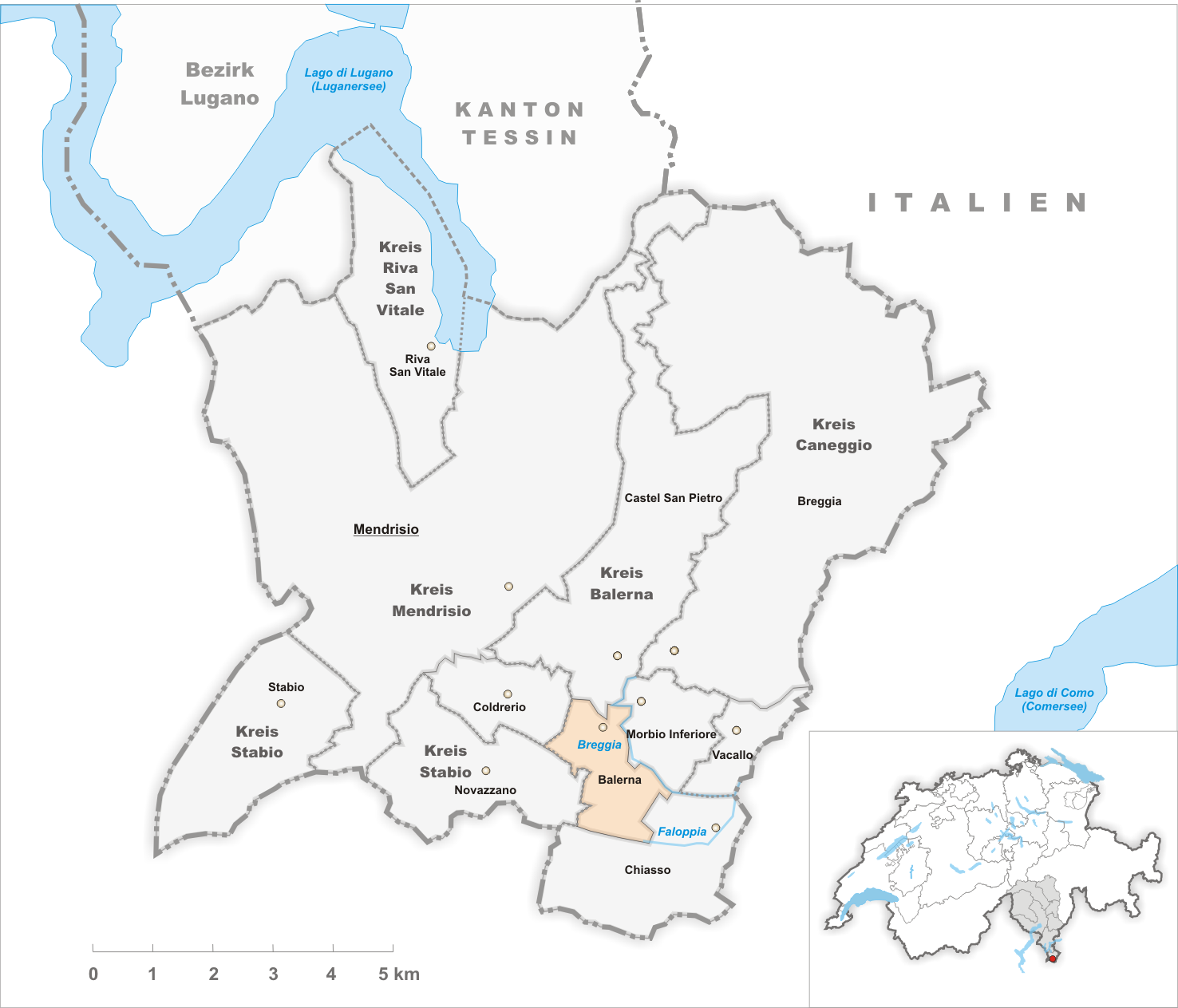 Municipality Balerna